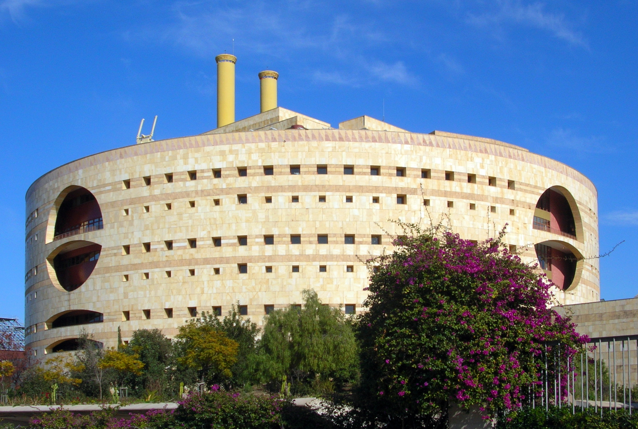 The Triana tower of the universal exposition of 1992 (Seville, Spain), built by Francisco Javier Sáenz de Oiza, since then property of the Junta de Andalucía.